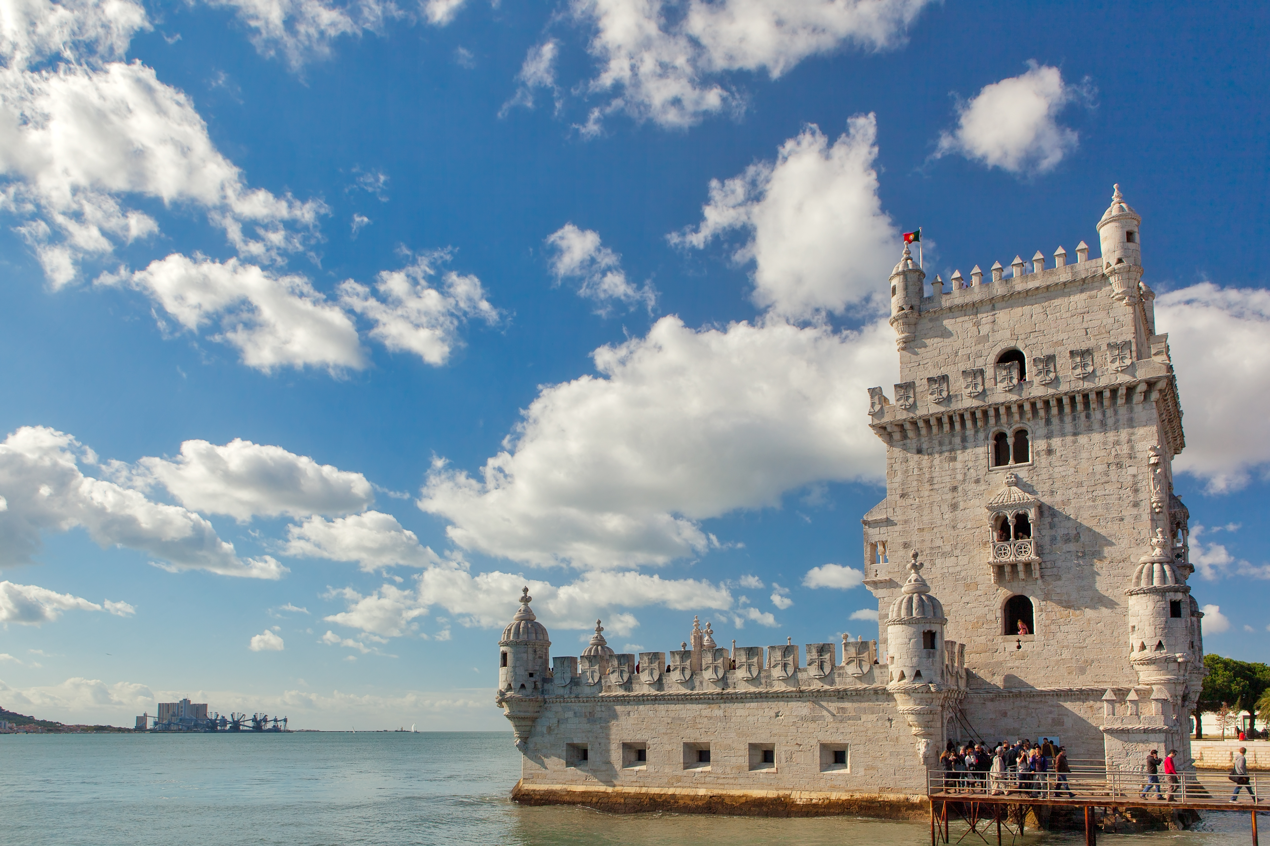 Belém Tower at Lisbon, Portugal. View from the East.